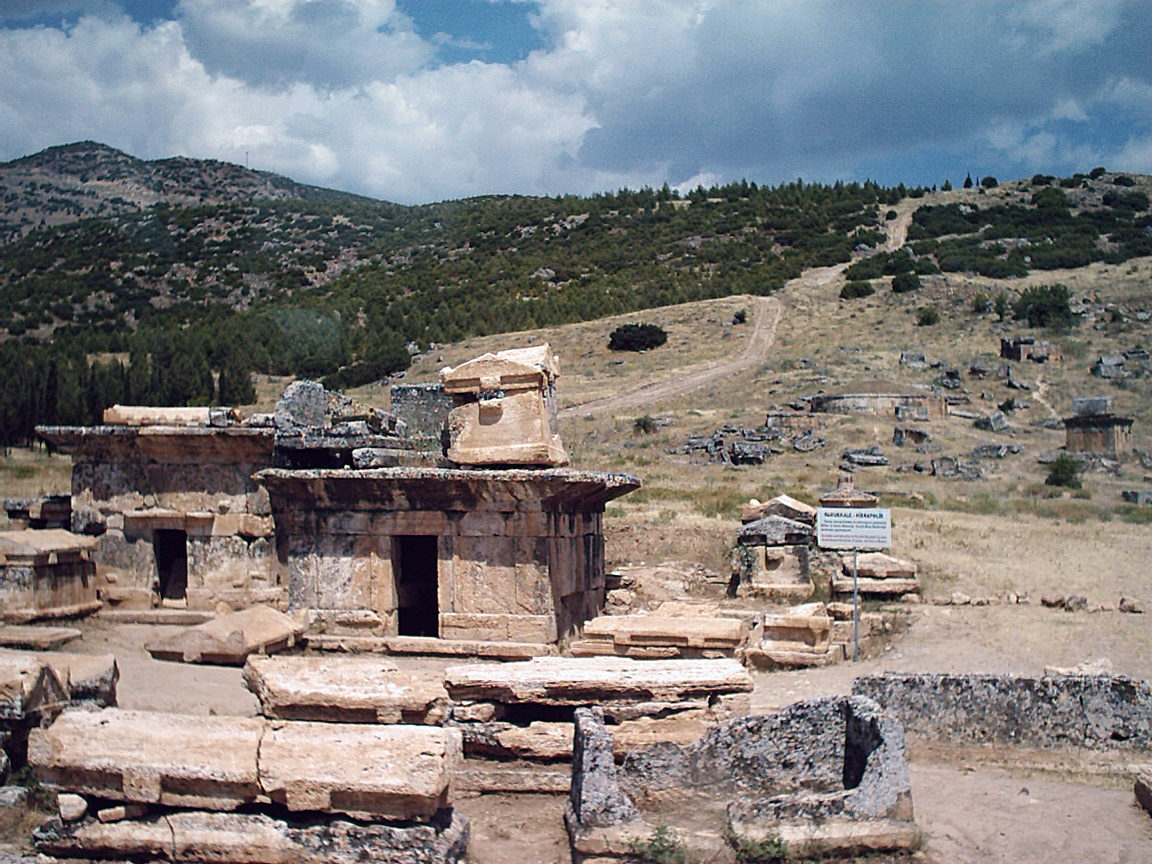 Sarcophagi and thumbs from hierapolis